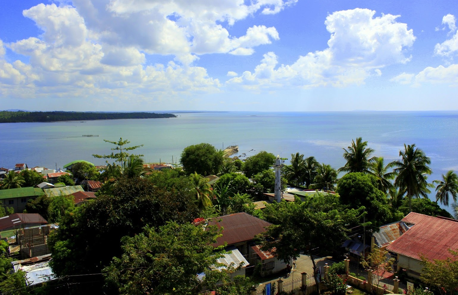 Downtown Pitogo viewed from the Conversion of Saint Paul Church's belfry